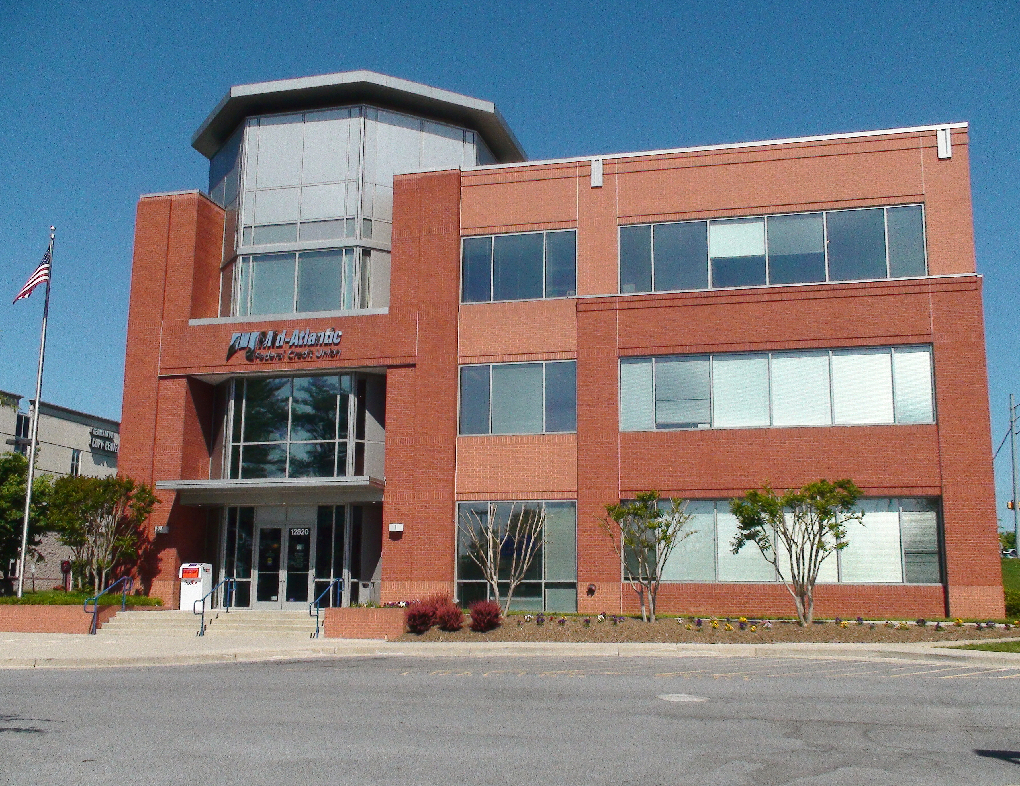 Mid-Atlantic Federal Credit Union, Germantown, Maryland, on May 24, 2014. Photograph taken on May 24, 2014, in Germantown, Maryland, with a Sony HDR-SR11 camcorder, by Illegitimate Barrister.